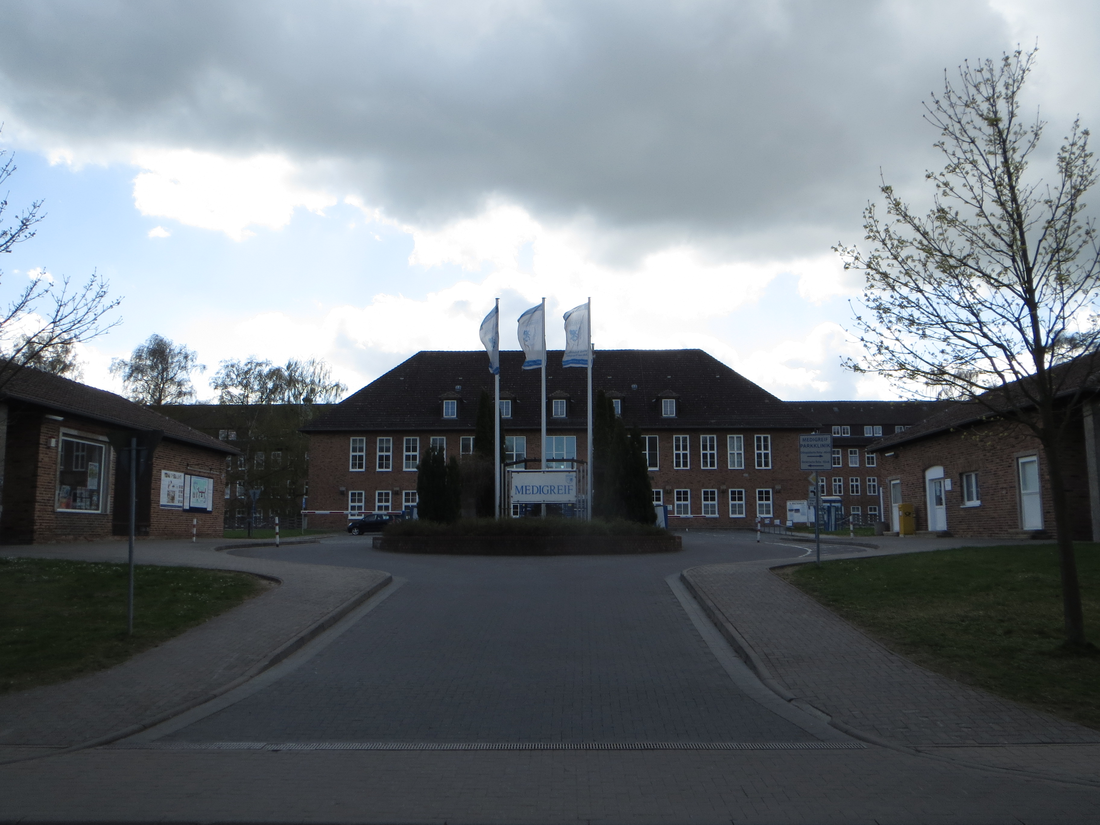 Medigreif in Greifswald